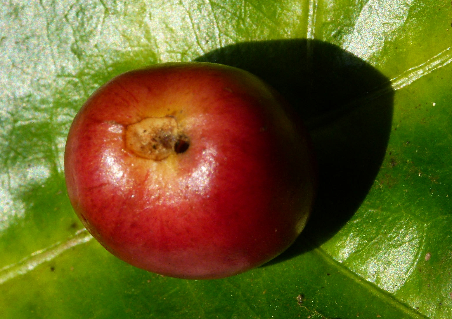 Entry hole of Hypothenemus on coffee berry. Mudigere, Karnataka.